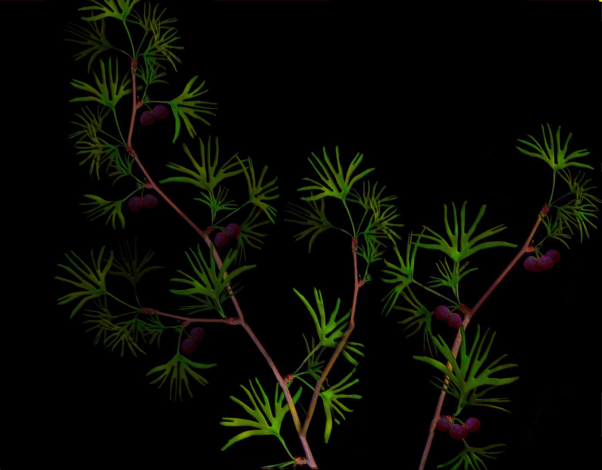 Digital recreation of Baiera, Ginkgophyta.